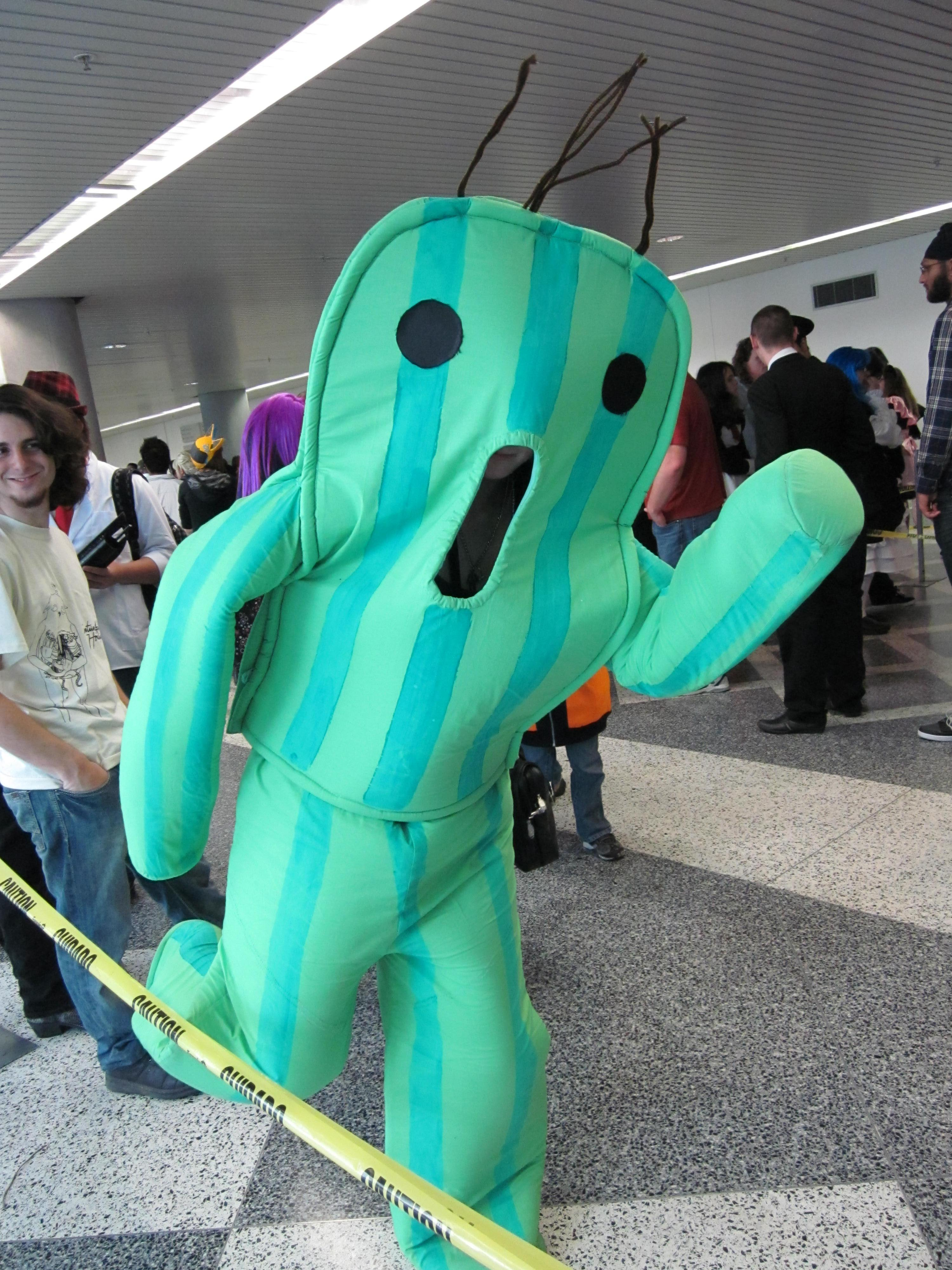 A cosplayer portraying a Cactuar from the Final Fantasy series at FanimeCon 2010 in San Jose, California.